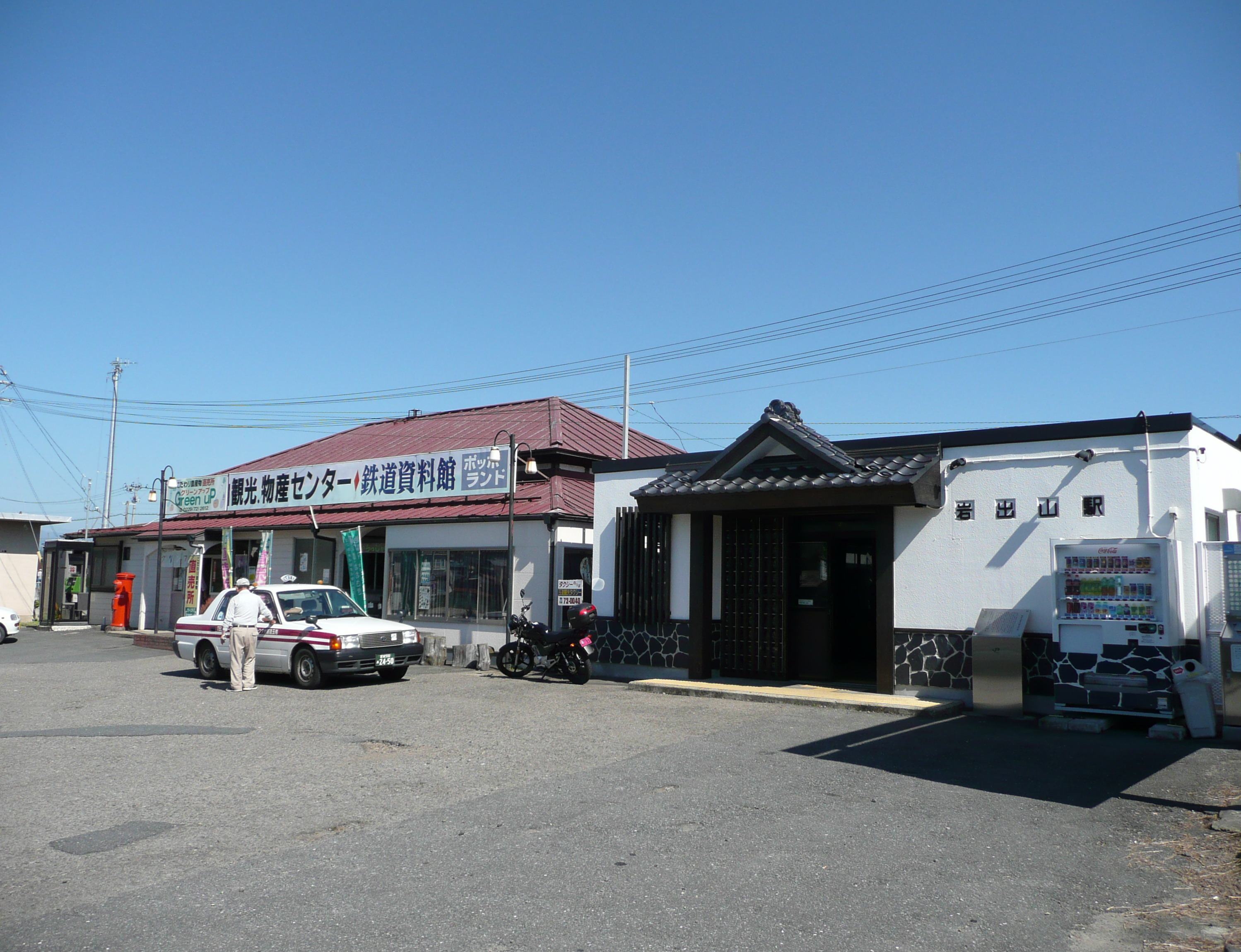 Iwadeyama Station building